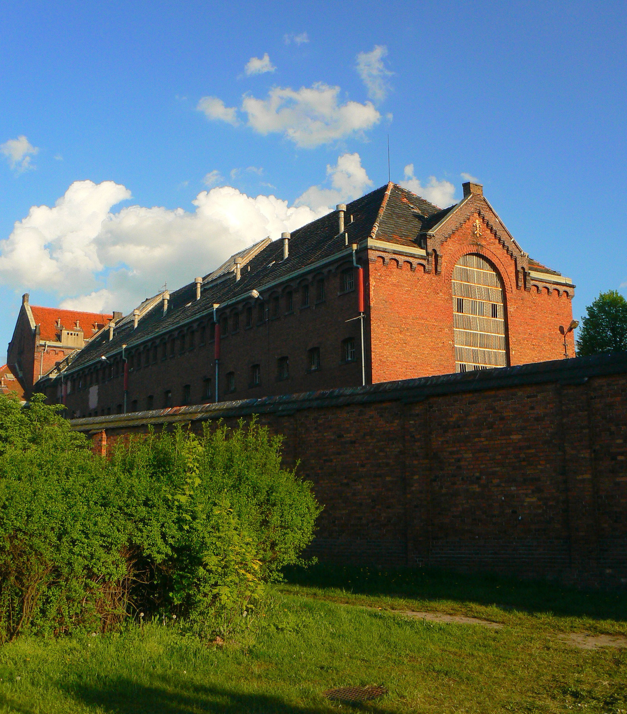 Prison in Wronkach - view from Mickiewicza Street